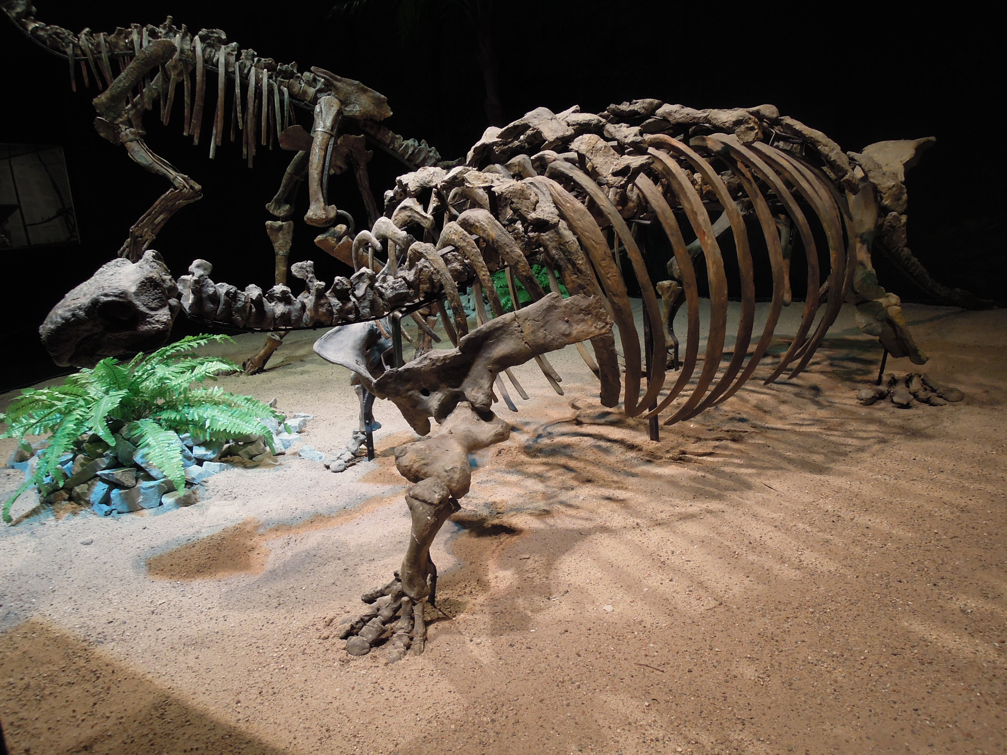 Talarurus plicatospineus, Dinosaurium exhibition, Prague, Czech Republic